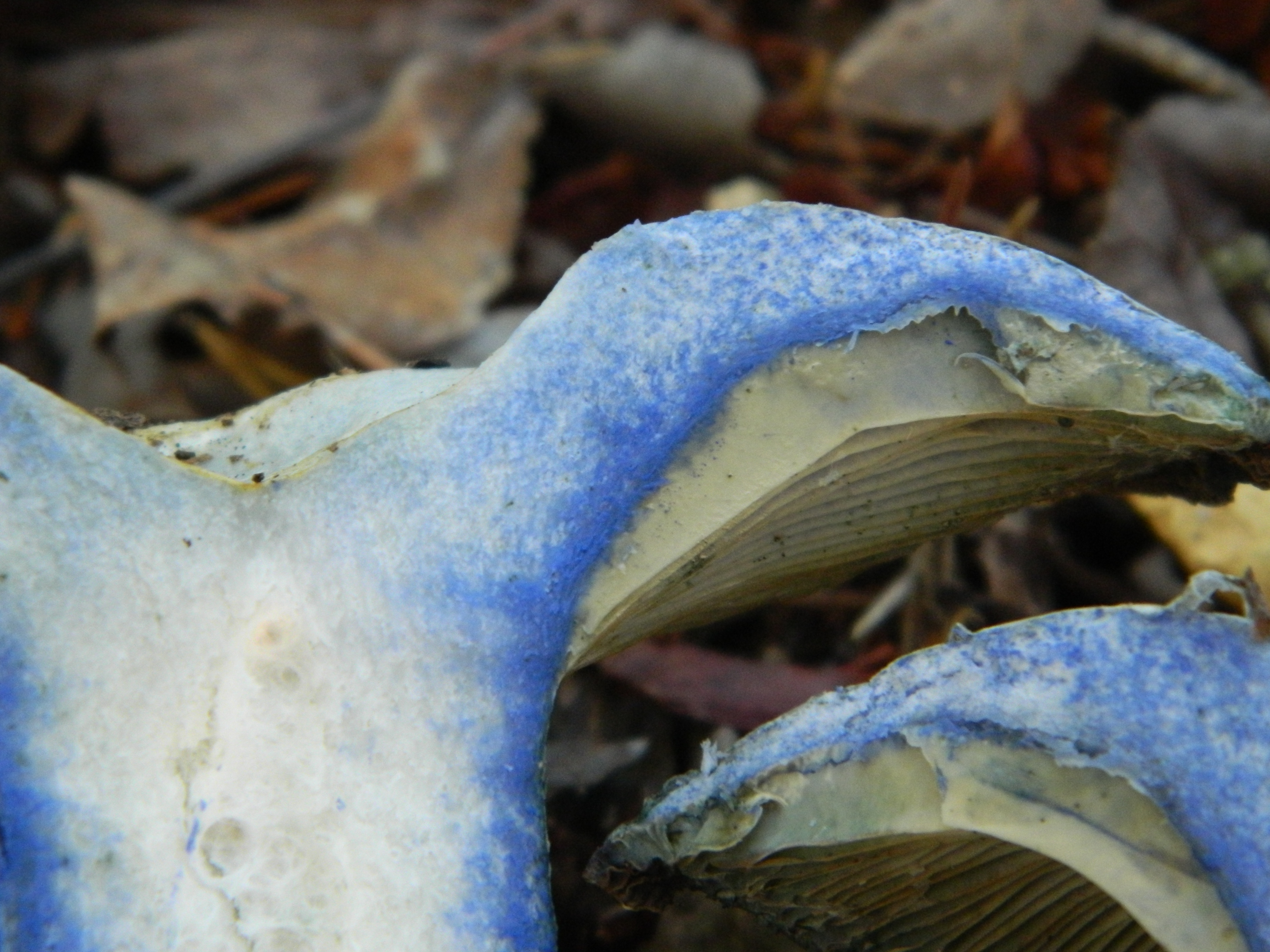 Lactarius indigo (Schwein.) Fr. Image location: Saleeby-Fischer YMCA, Rockwell, North Carolina, USA Growing under a small stand of Pinus virginiana in Mixed Woods. Blue latex. Recognized by sight For more information about this, see the observation page at Mushroom Observer.